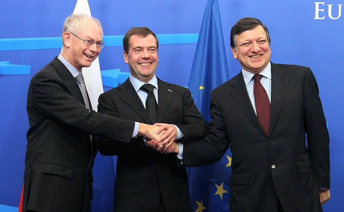 With President of the European Council Herman Van Rompuy (left) and President of the European Commission Jose Manuel Barroso.